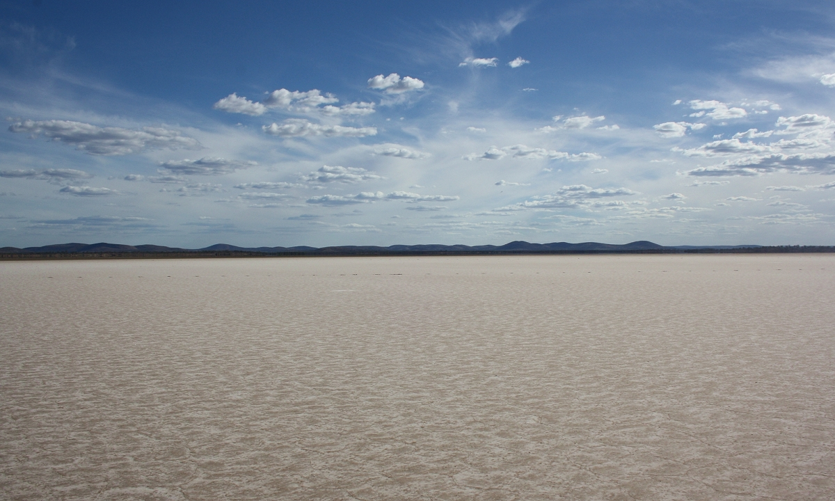 Lake Acraman, a salt lake covering the central part of the Acraman impact structure, South Australia. View across the salina towards the Gawler Ranges.